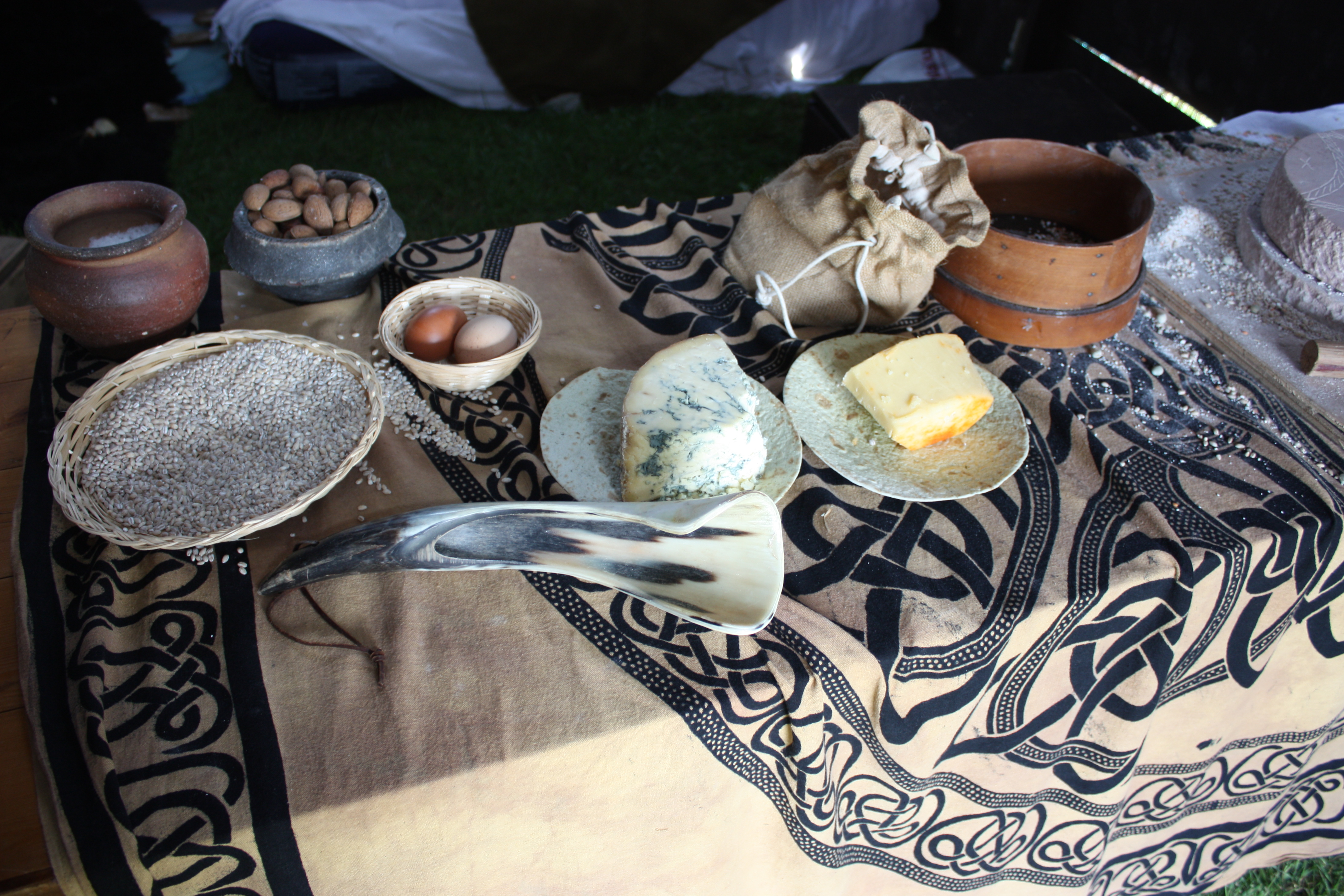 Viking village, Magnus Barelegs Viking Festival, Delamont Country Park, Killyleagh, County Down, Northern Ireland, June 2012